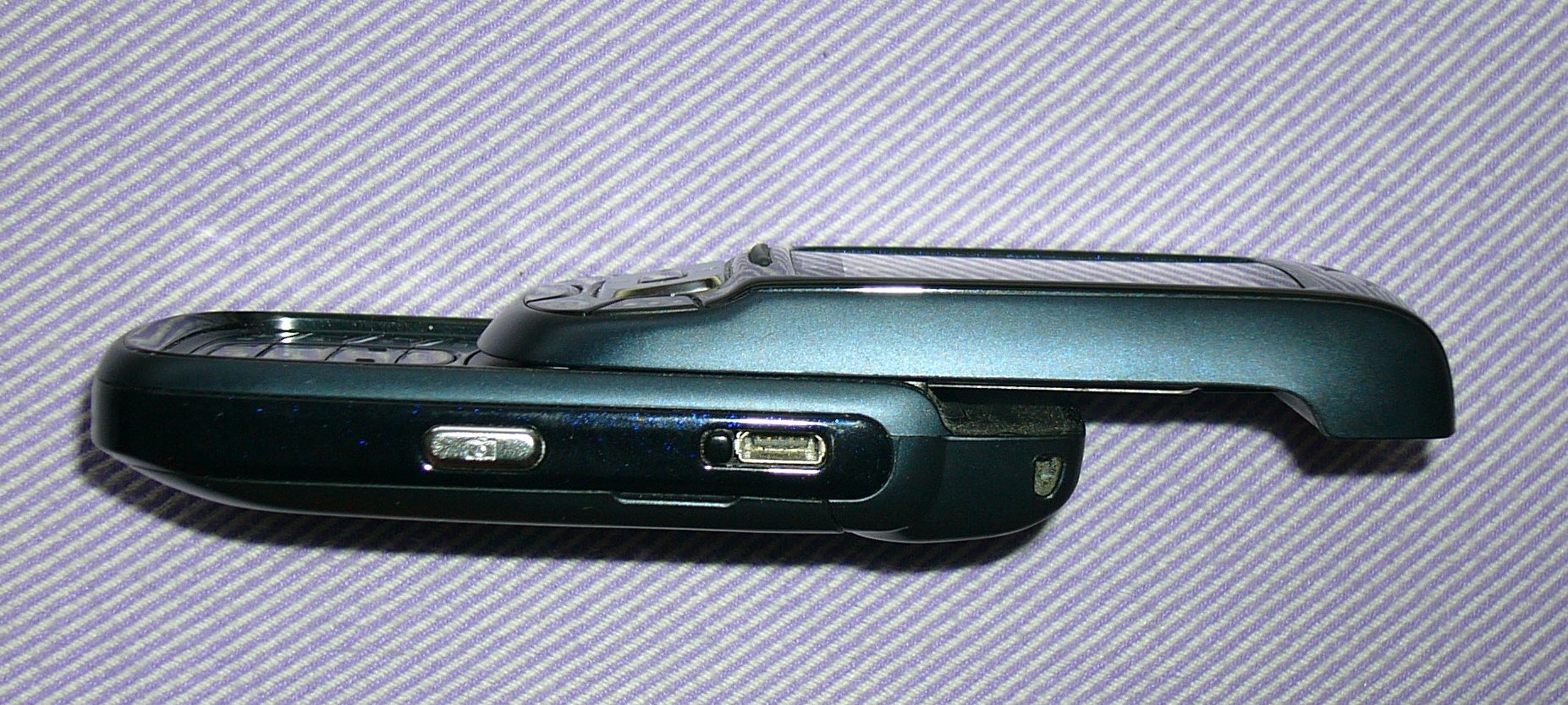 Samsung SGH-D500 cellular phone, side view.